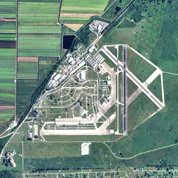 USGS digital orthophoto of Sebring Regional Airport in Florida